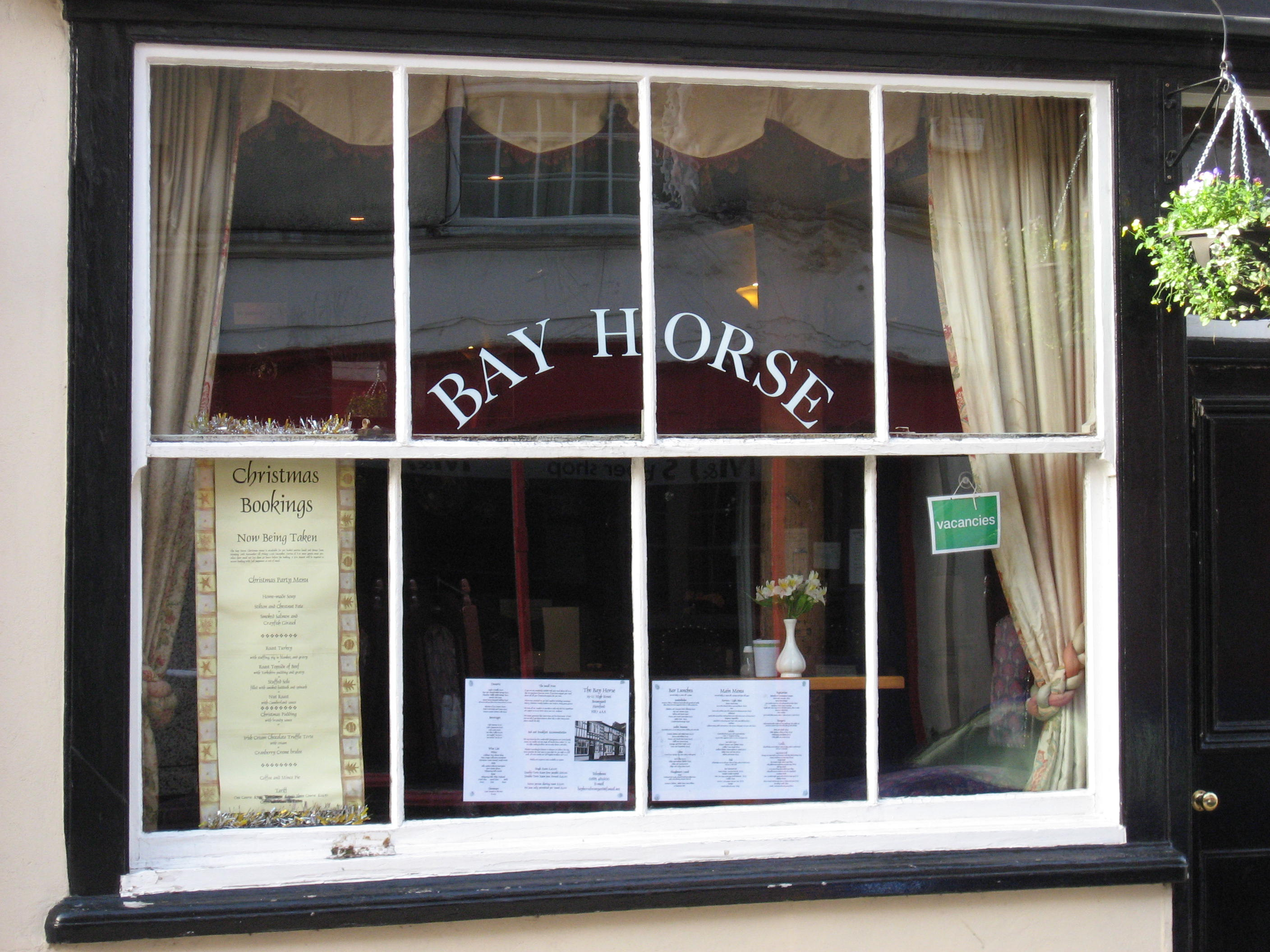 Exceptionally large sash window in an old pub in Bromyard, Herefordshire, England